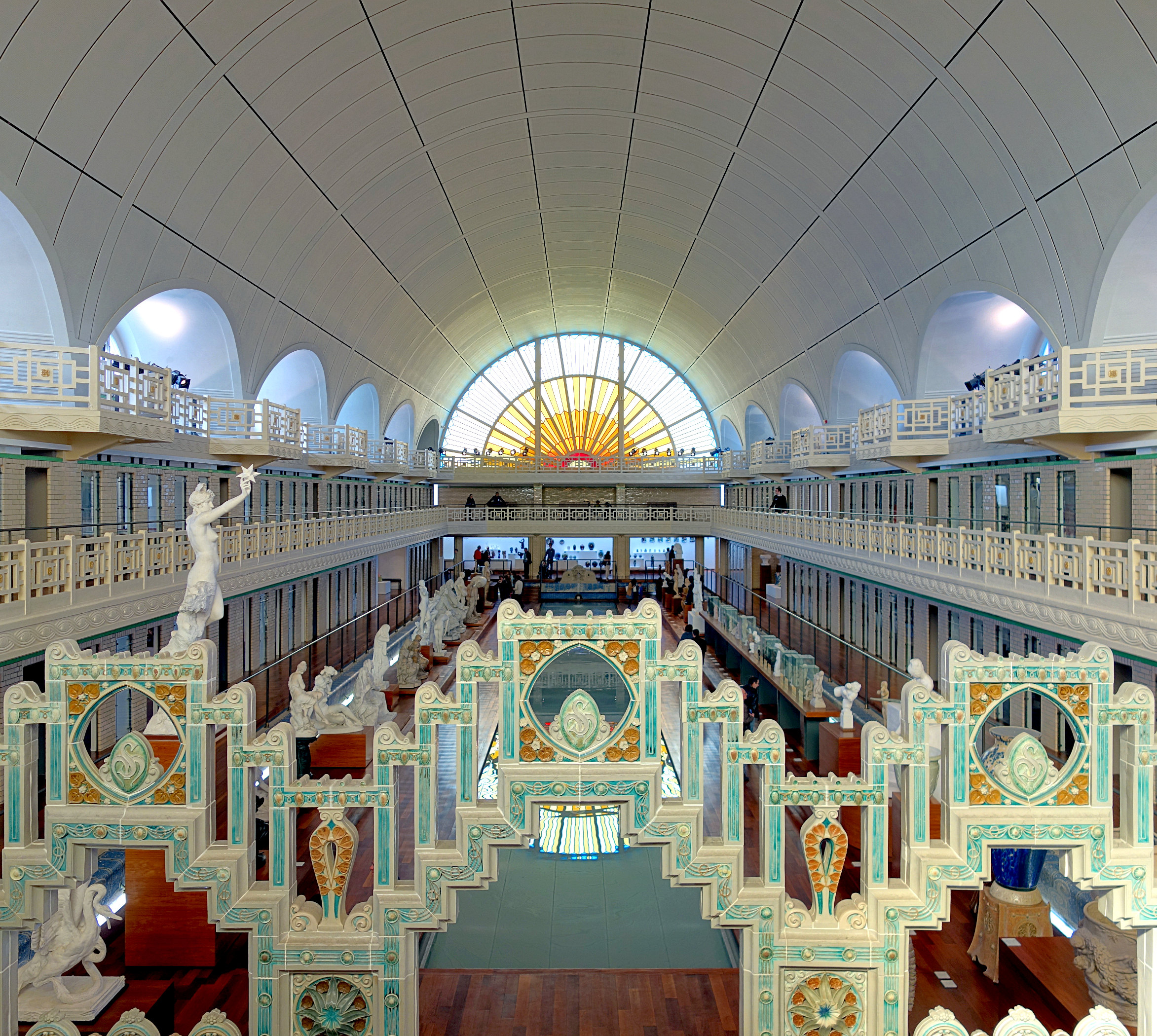 The swimming pool, Musée d'Art et d'Industrie in Roubaix, France.